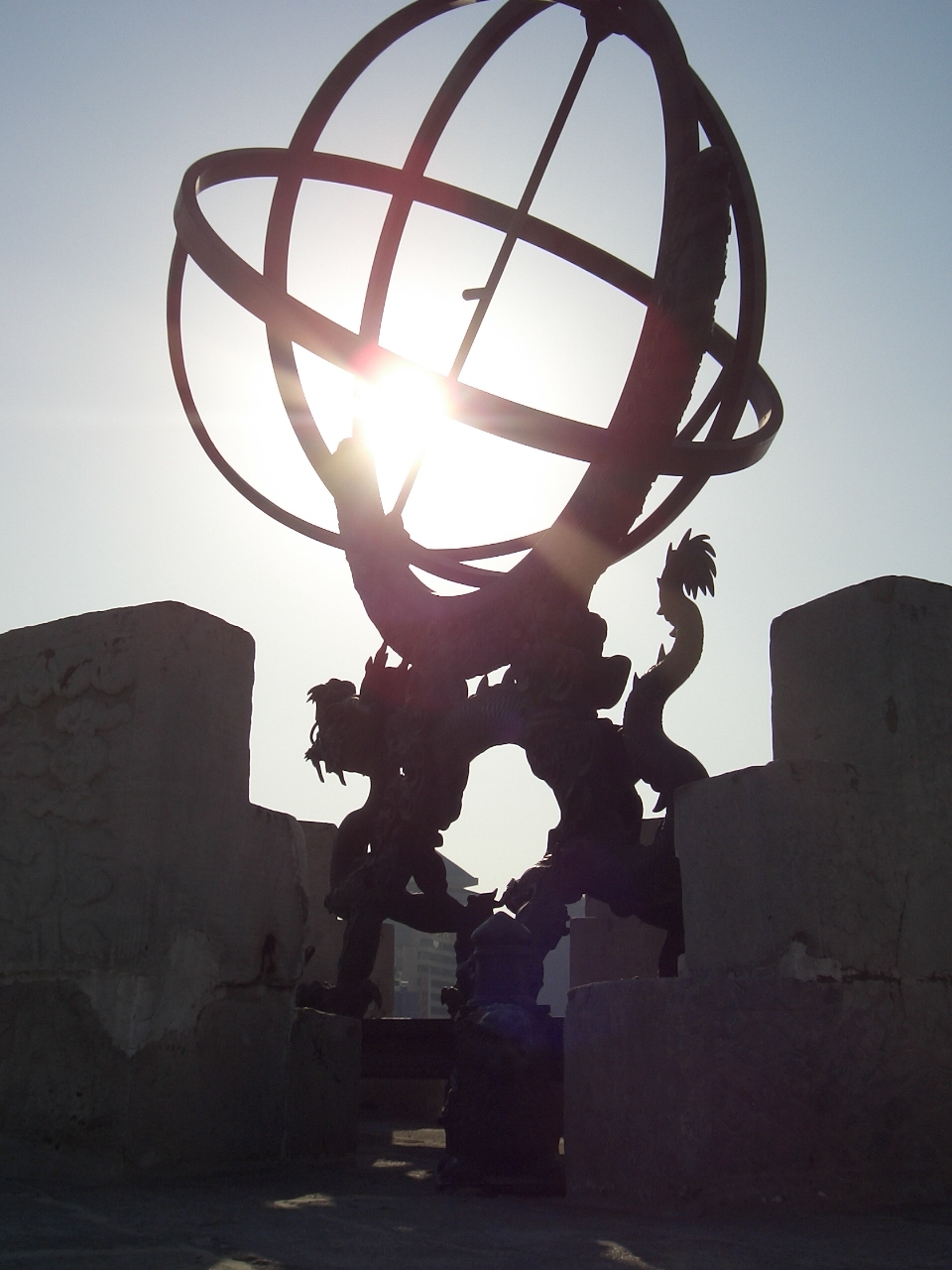 Equipment at the Beijing Ancient Observatory